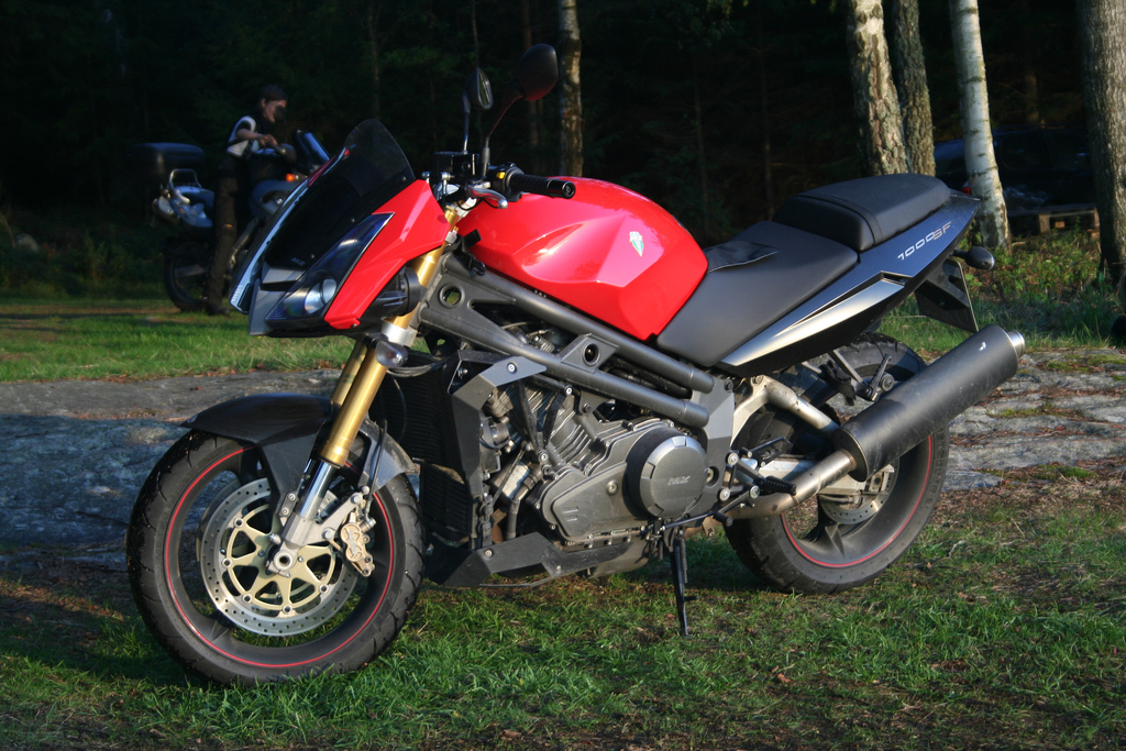 MZ 1000 SF